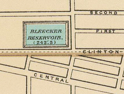 Location of Bleecker Reservoir, which later became Bleecker Stadium, in Albany, New York in 1895